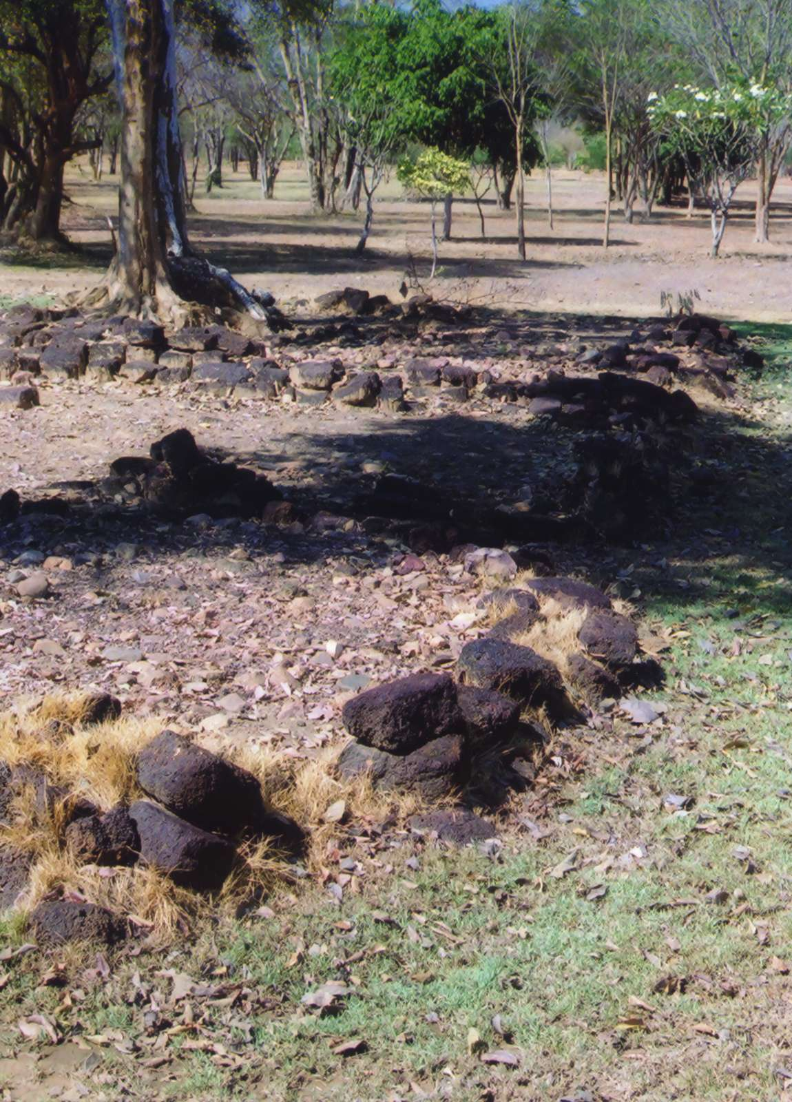 Mueang Sing historical park, Kanchanaburi province, Thailand. Monument 4, the foundations of a laterite building. Photo taken by User:Ahoerstemeier on January 26 2005.